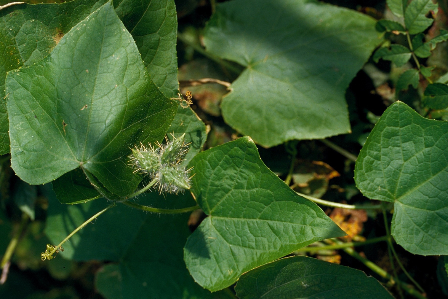 Sicyos angulatus L.- oneseed burr cucumber - Fruit - United States